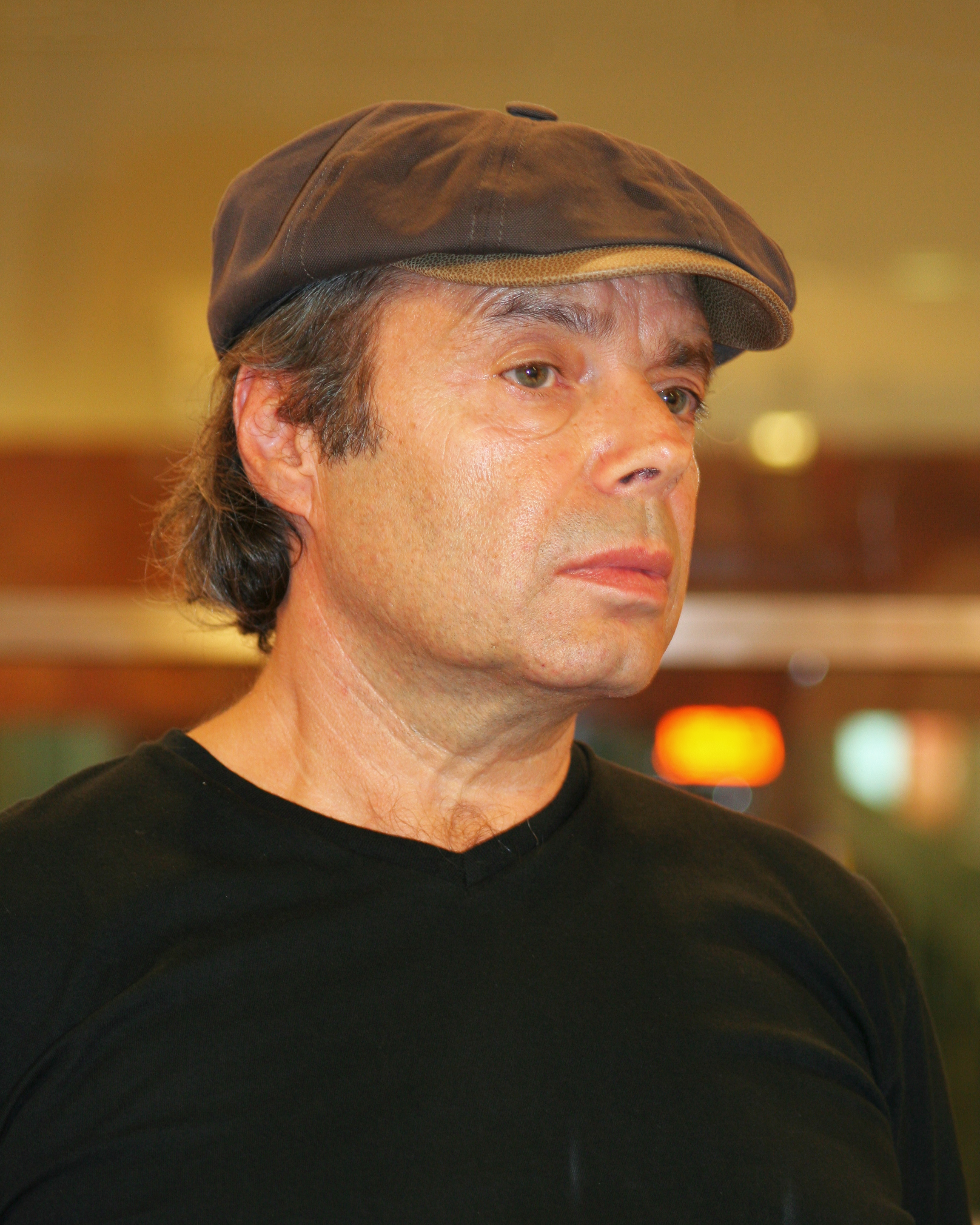 The french author Philippe Djian presents his book Doggy Bag in Cologne, Germany.